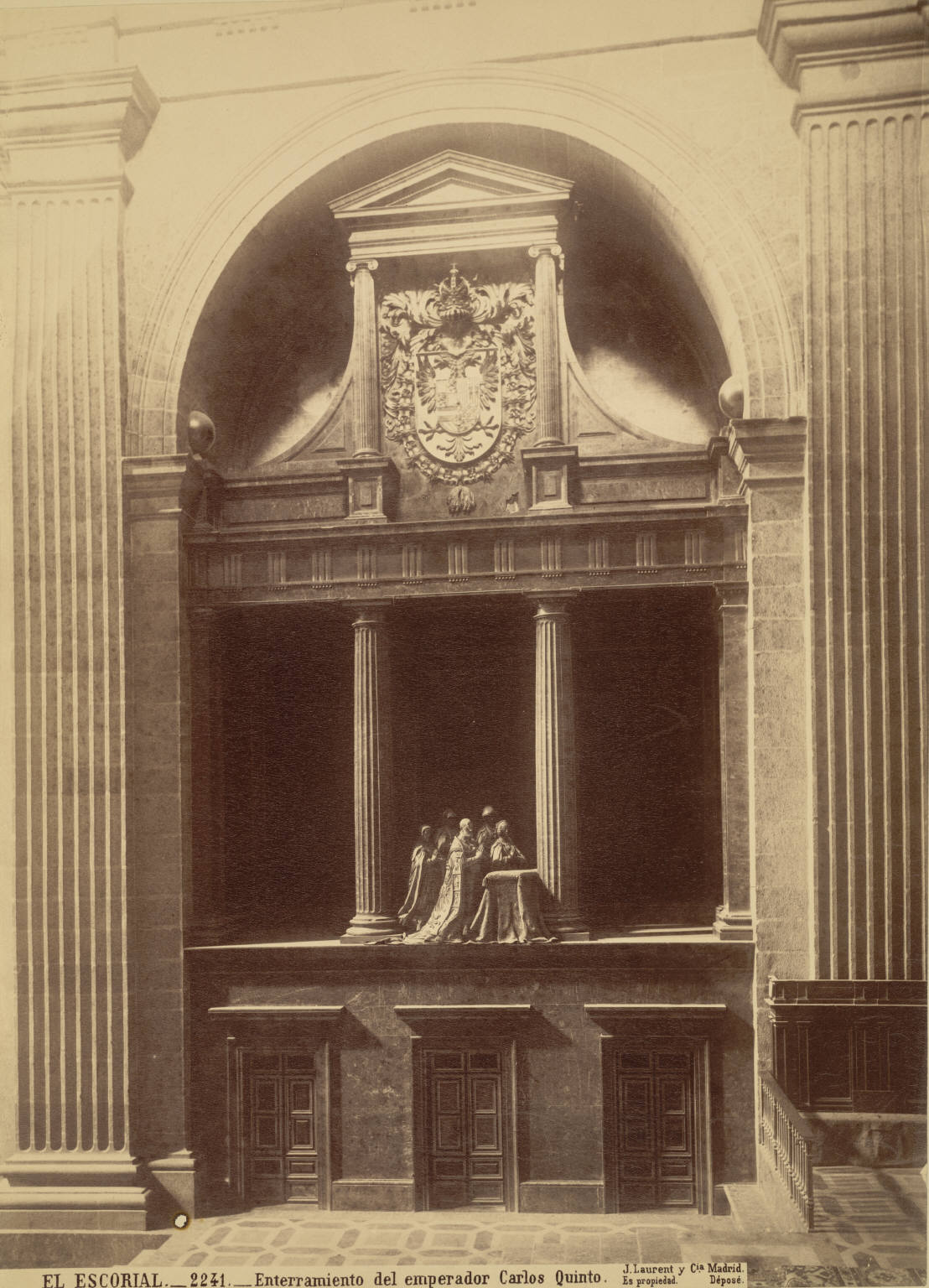 Collection: A. D. White Architectural Photographs, Cornell University Library Accession Number: 15/5/3090.01469 Title: El Escorial. Tomb of Carlos V Photographer: Juan Laurent (French, 1816-1892) Architect: Juan Bautista de Toledo (Spanish, -1567) Architect: Juan de Herrera (Spanish, 1530-1597) Photograph date: ca. 1865-ca. 1890 Building Date: 1563-1584 Location: Europe: Spain; San Lorenzo de El Escorial Materials: albumen print Image: 13.4646 x 9.8425 in.; 34.2 x 25 cm Style: Renaissance Provenance: Gift of Andrew Dickson White Persistent URI: There are no known copyright restrictions on this image. The digital file is owned by the Cornell University Library which is making it freely available with the request that, when possible, the Library be credited as its source. We had some help with the geocoding from Web Services by Yahoo!